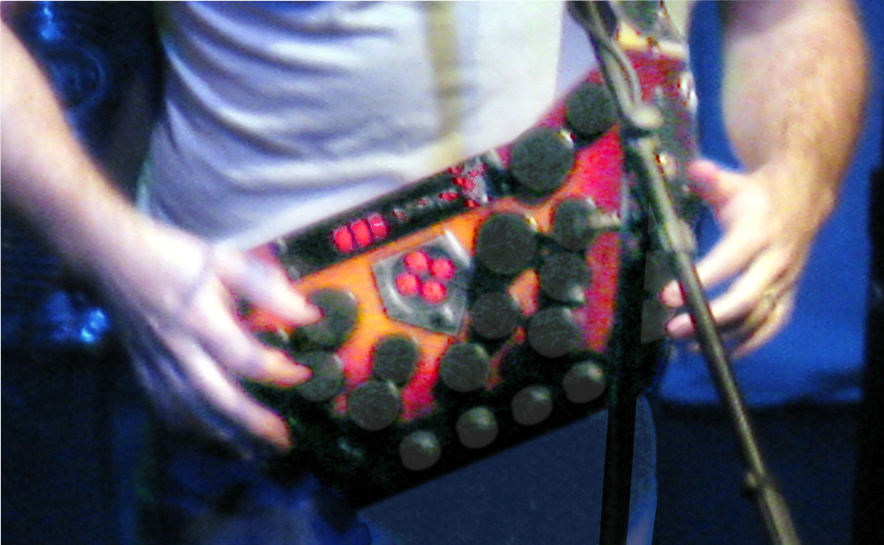 Zendrum drum machine Jonathan Coulton and TMBG, 2010-03-11 from Flickr album "JoCo & TMBG" by Amanda Hartman from Richmond, VA, USA References Jeff Hodges. Zendrum Laptop Layout. Tips & Tricks. Zendrum Corporation. ""Home Row" is in Red. / On home row, it's thumb on kick, index on closed hat, and middle finger on snare. By keeping your hands over home row, just like a typewriter, ..."